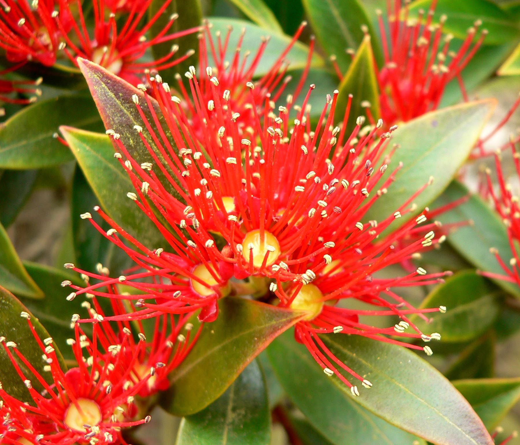 Photo of Metrosideros umbellata at the San Francisco Botanical Garden